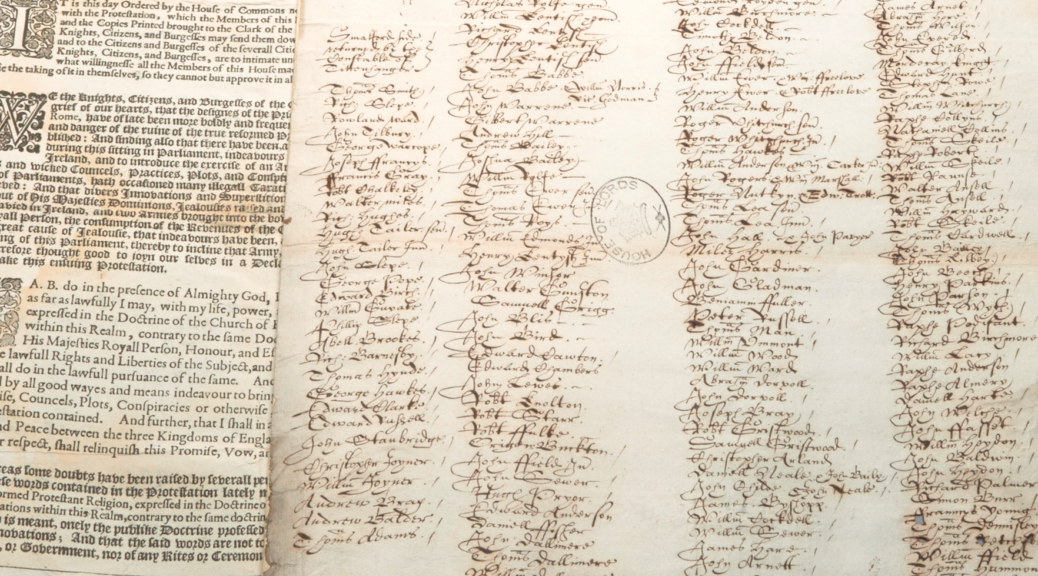 In 1641, all Englishmen above the age of 18 were required to put their name under lists like this one to be deemed fit to hold office in the state of England or the Church of England